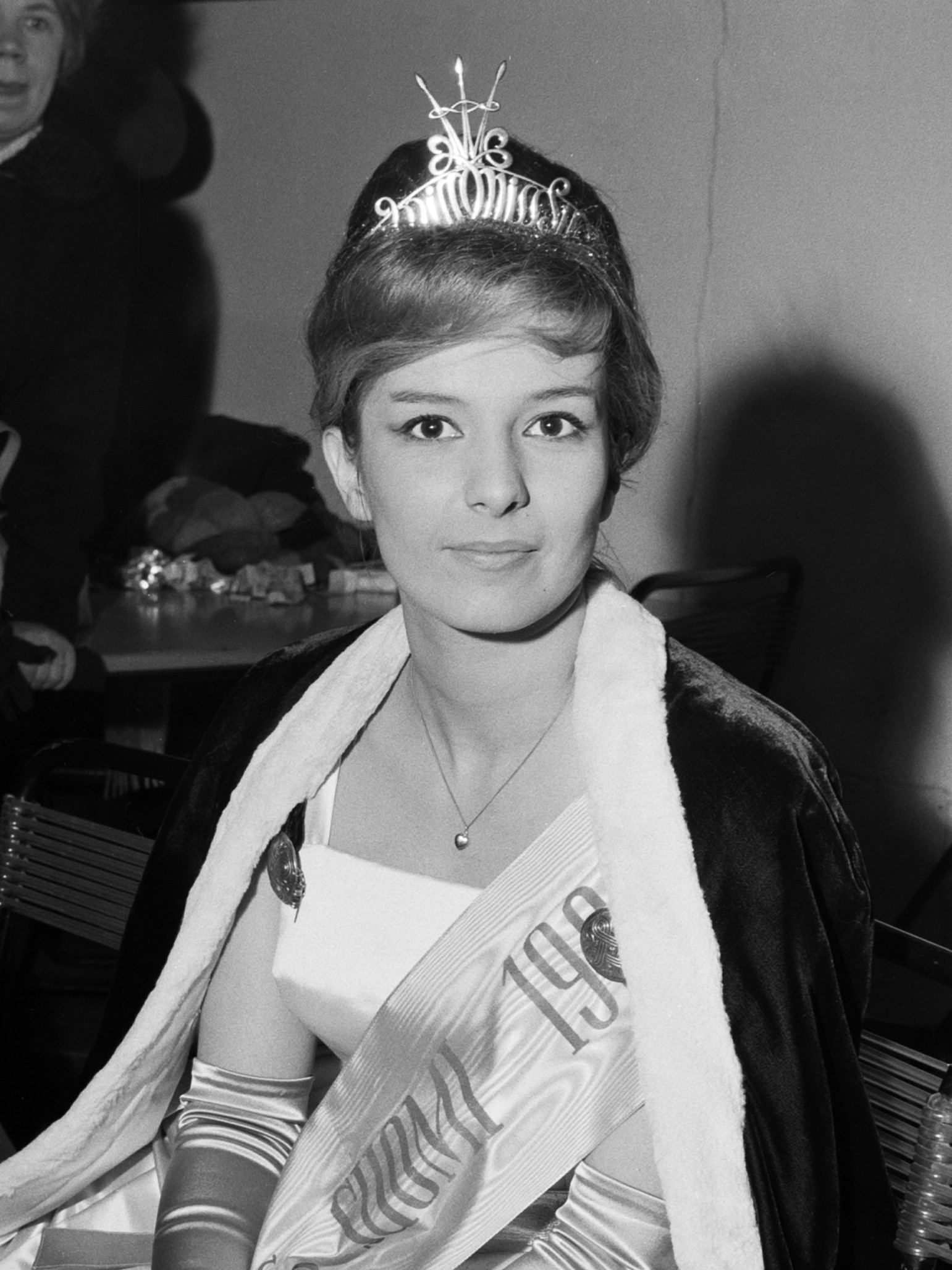 Ritva Wächter in 1959.